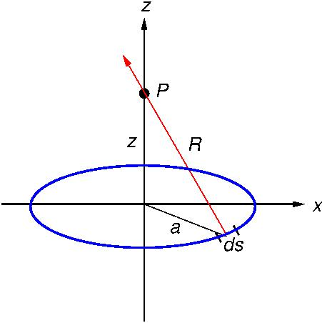 Electric field from charged ring